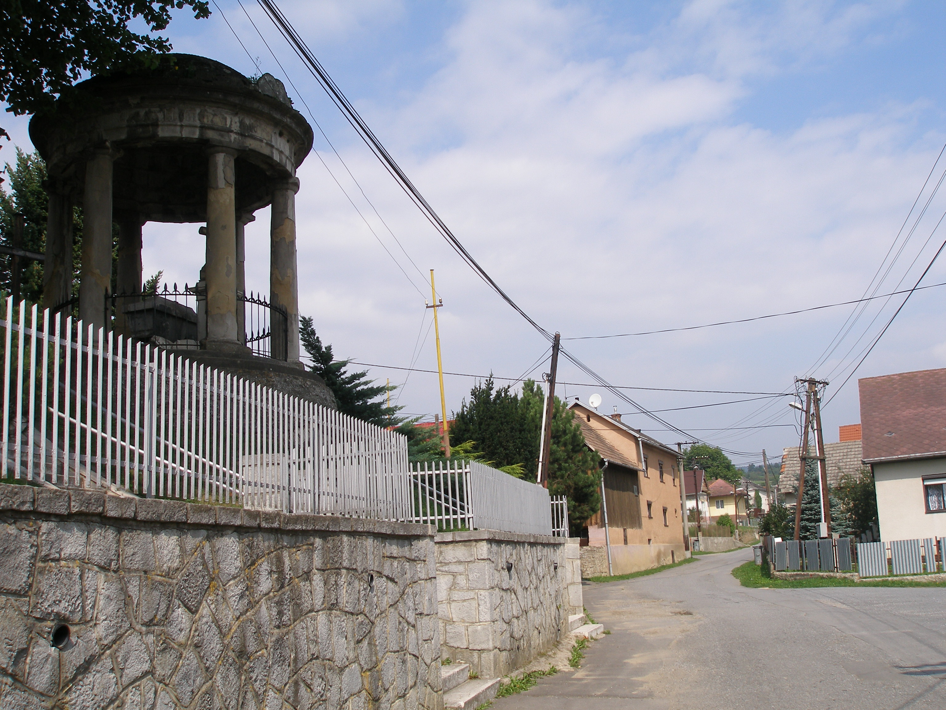 Šarišská obec Hermanovce This medium shows the protected monument with the number 707-292/2 in the Slovak Republic.